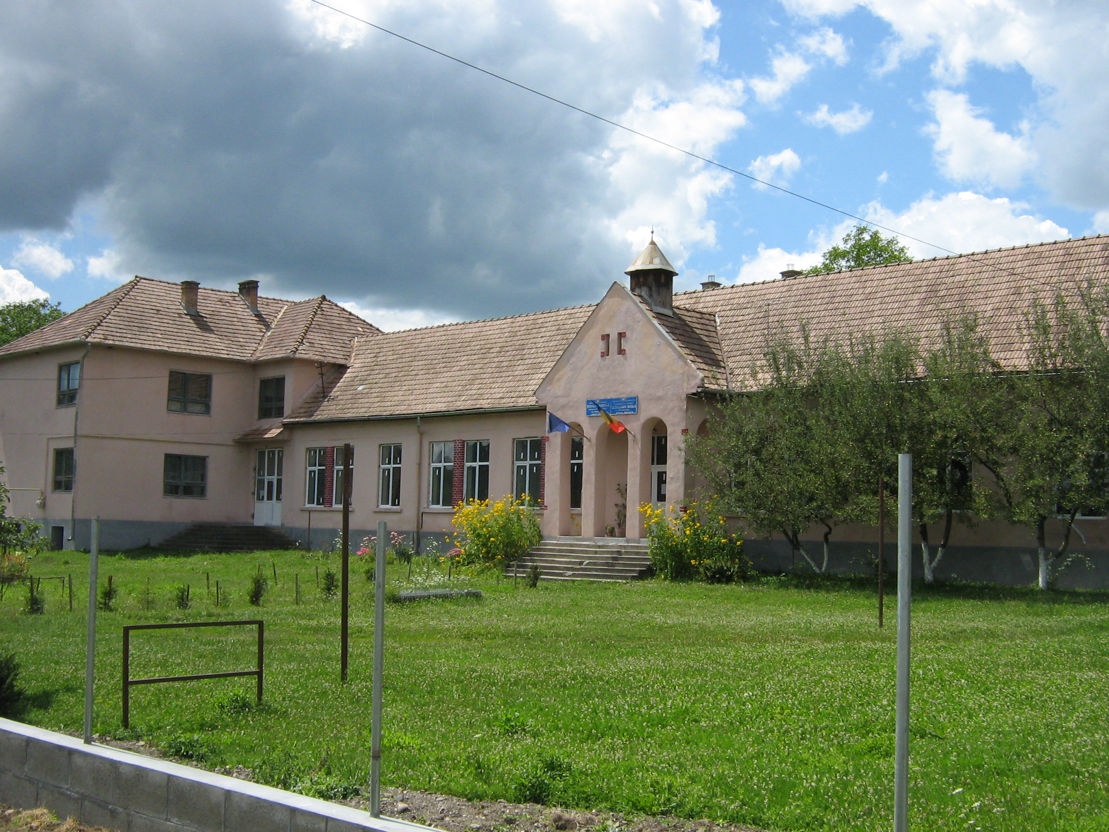 School in Ghindari